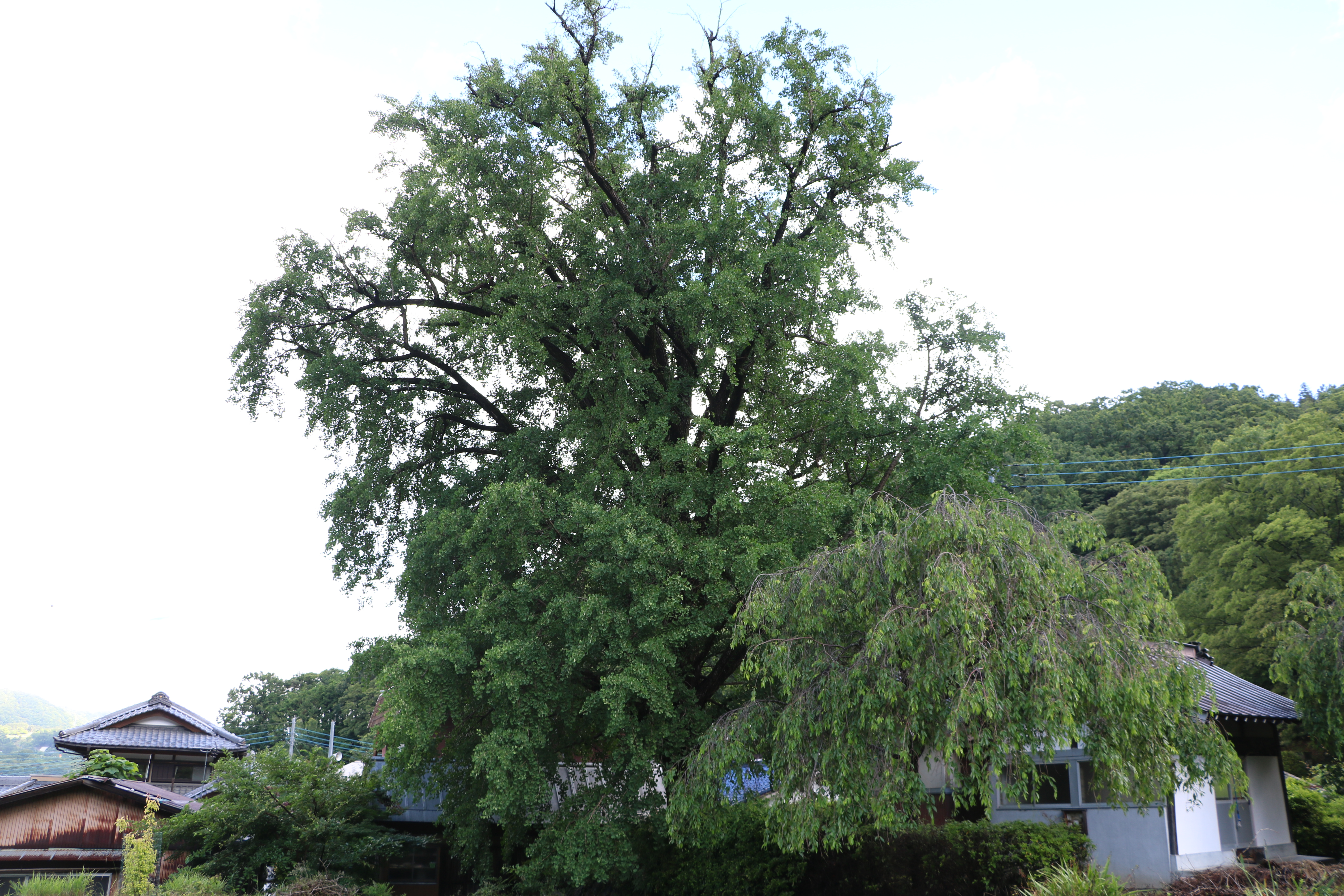 Yagisawa no Ohatsuki Icho. Ginkgo biloba natural monuments in Japan.